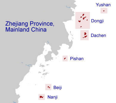 Chekiang Province (1951 - 1955), Republic of China